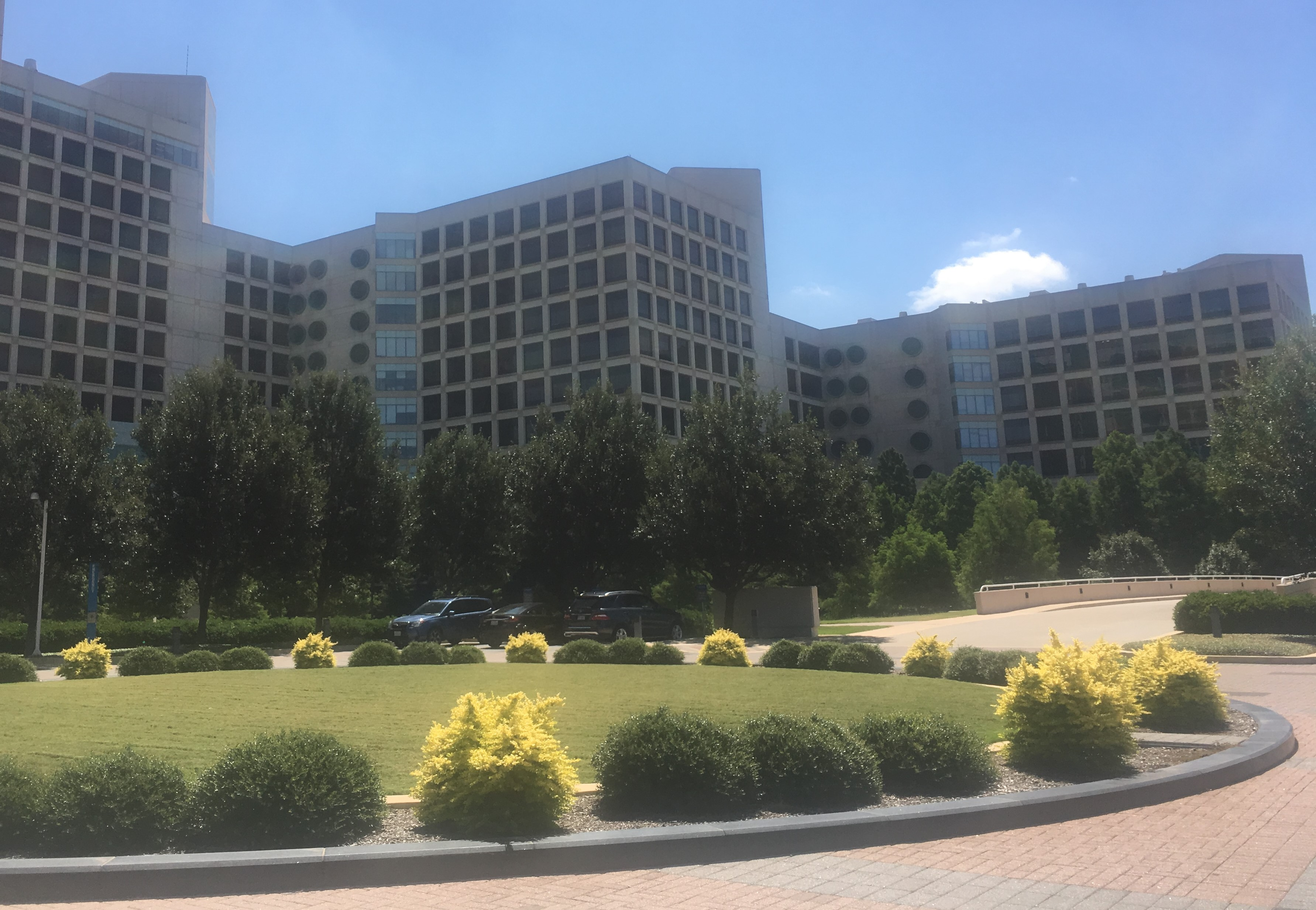 Hamon Biomedical and Simmons Research Building, UTSW North campus